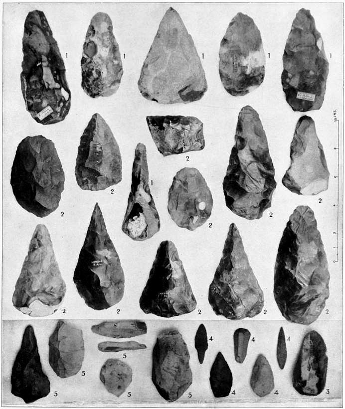 Paleolithic Period.1. French Drift 2. English Drift. 3. French transition (Le Moustier). 4. French Cave Period. 5. English Cave Period. Illustration from 1911 Encyclopædia Britannica, article Archaeology.